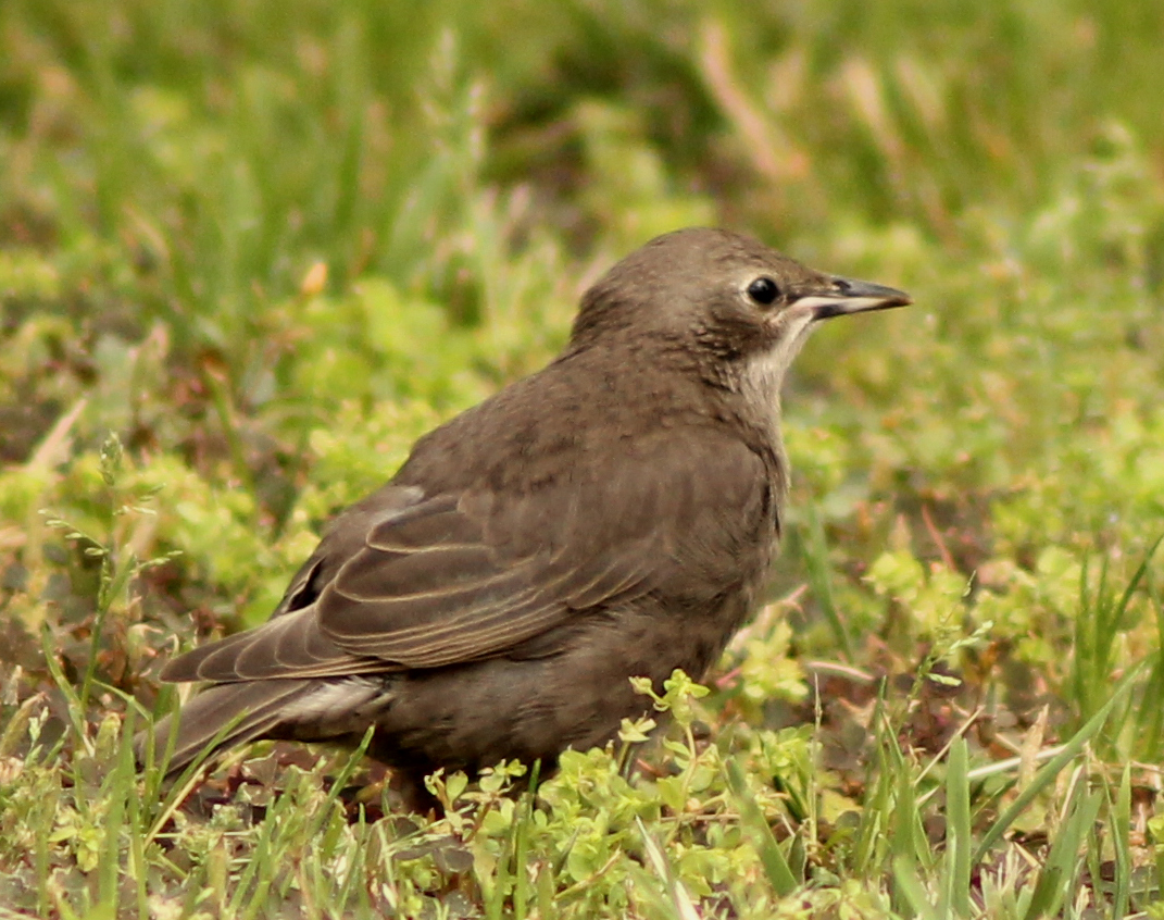 A juvenile Spotless Starling (Sturnus unicolor) in Madrid (Spain).